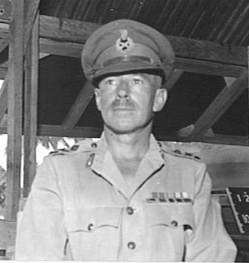 PALMALMAL, JACQUINOT BAY, NEW BRITAIN. Major General K.W. Eather, General Officer Commanding 11 Division, at Headquarters 11 Division.